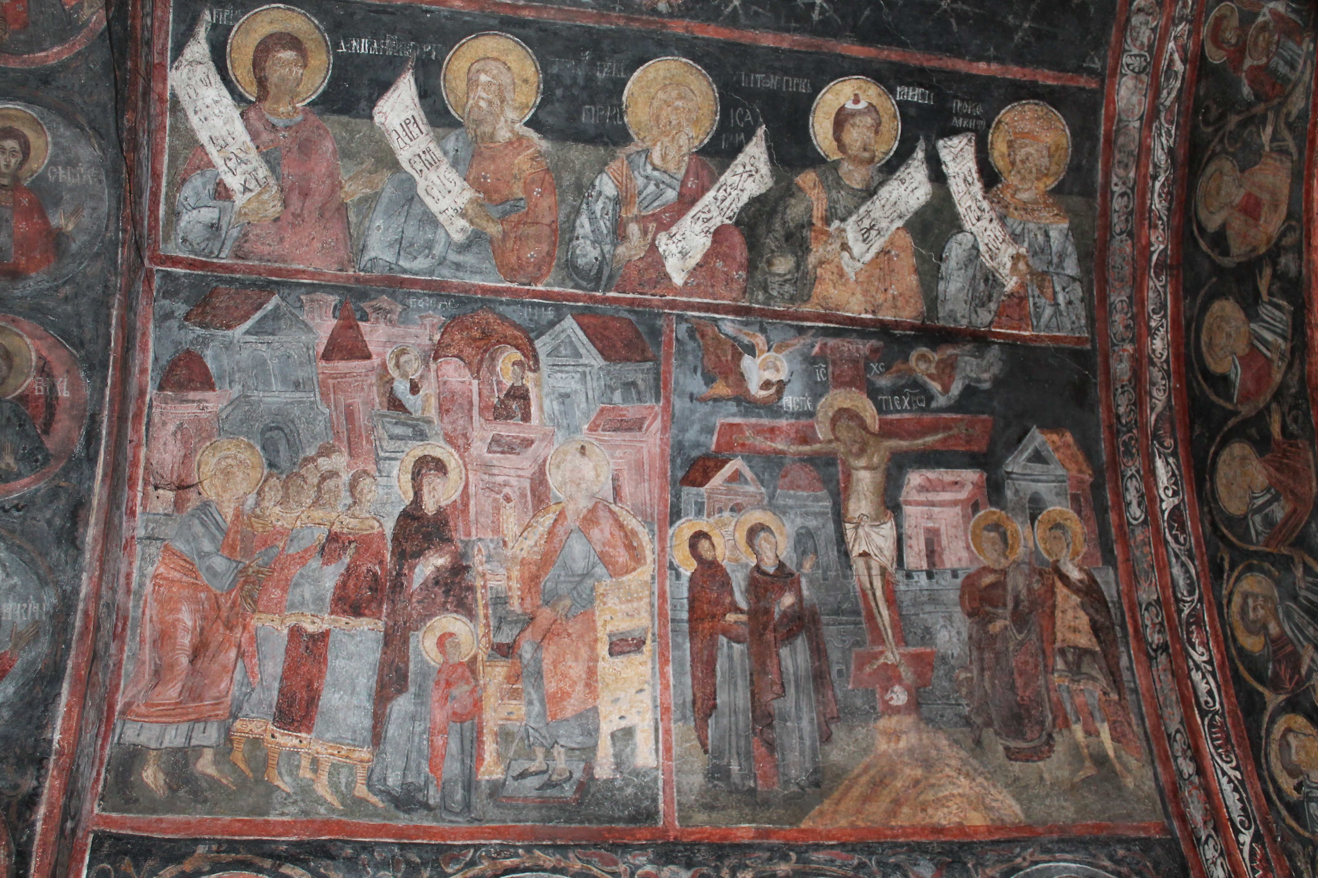 Frescos from the St. Panteleimon Church in Vidin, Bulgaria